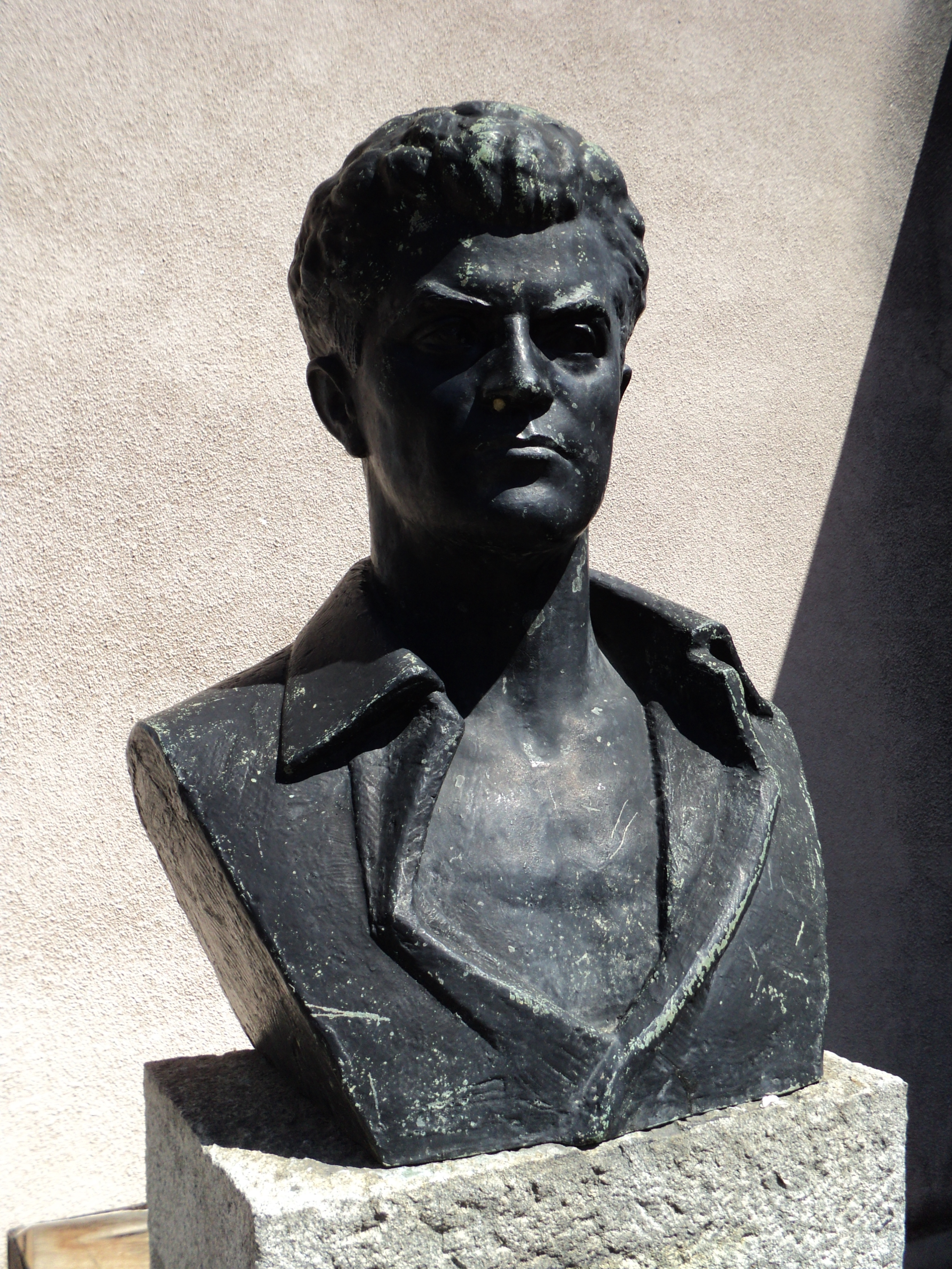 Bust of Yugoslav partisan Vinko Jeđut, Zagreb.